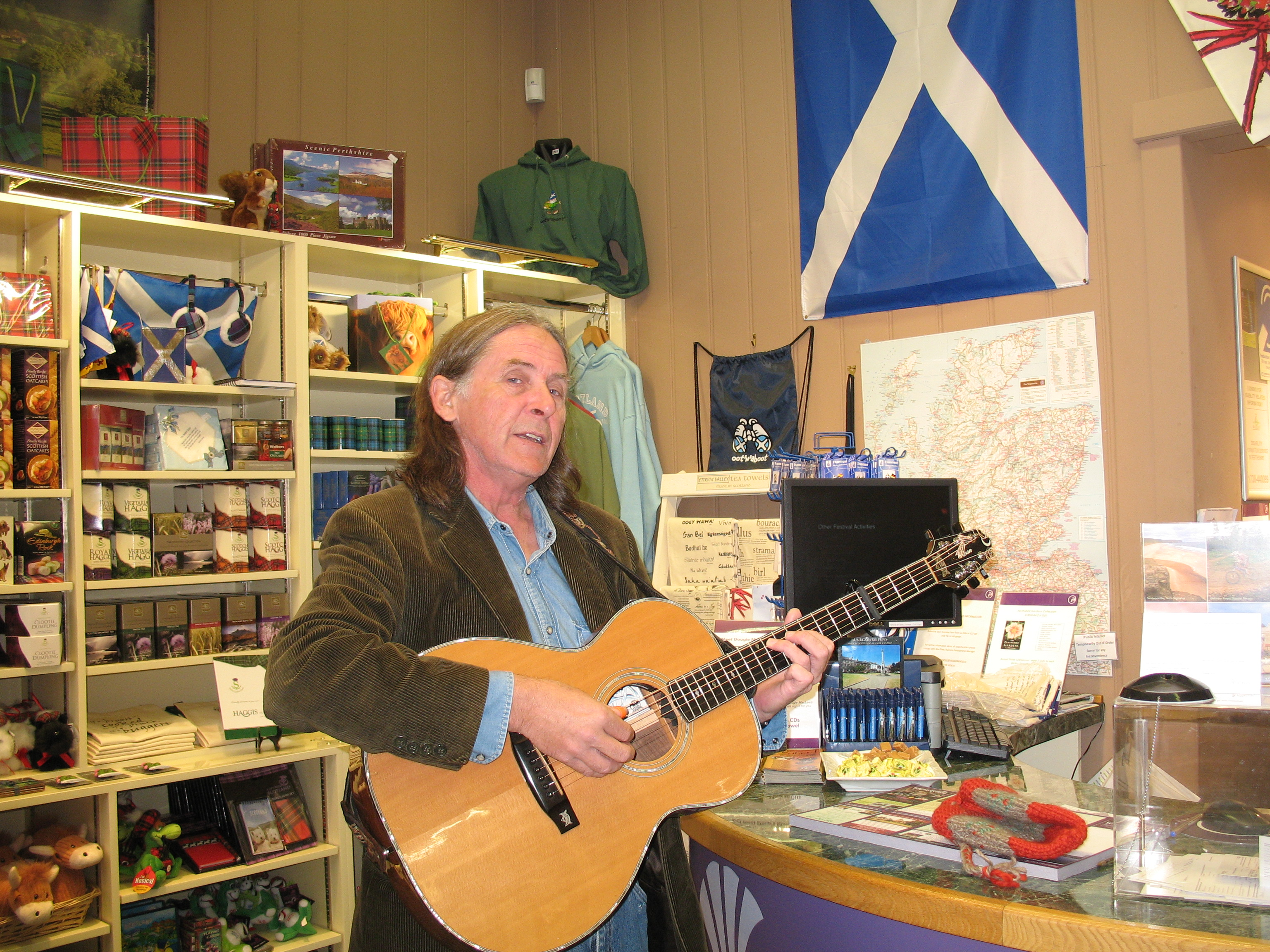 Dougie MacLean singing Caledonia in the Blairgowrie Tourist Information Centre, September 2011 By Diane Snider, My Own Work